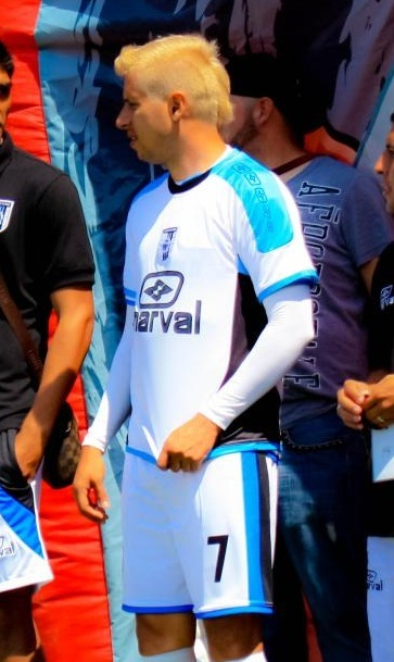 Mexican footballer Adolfo Bautista